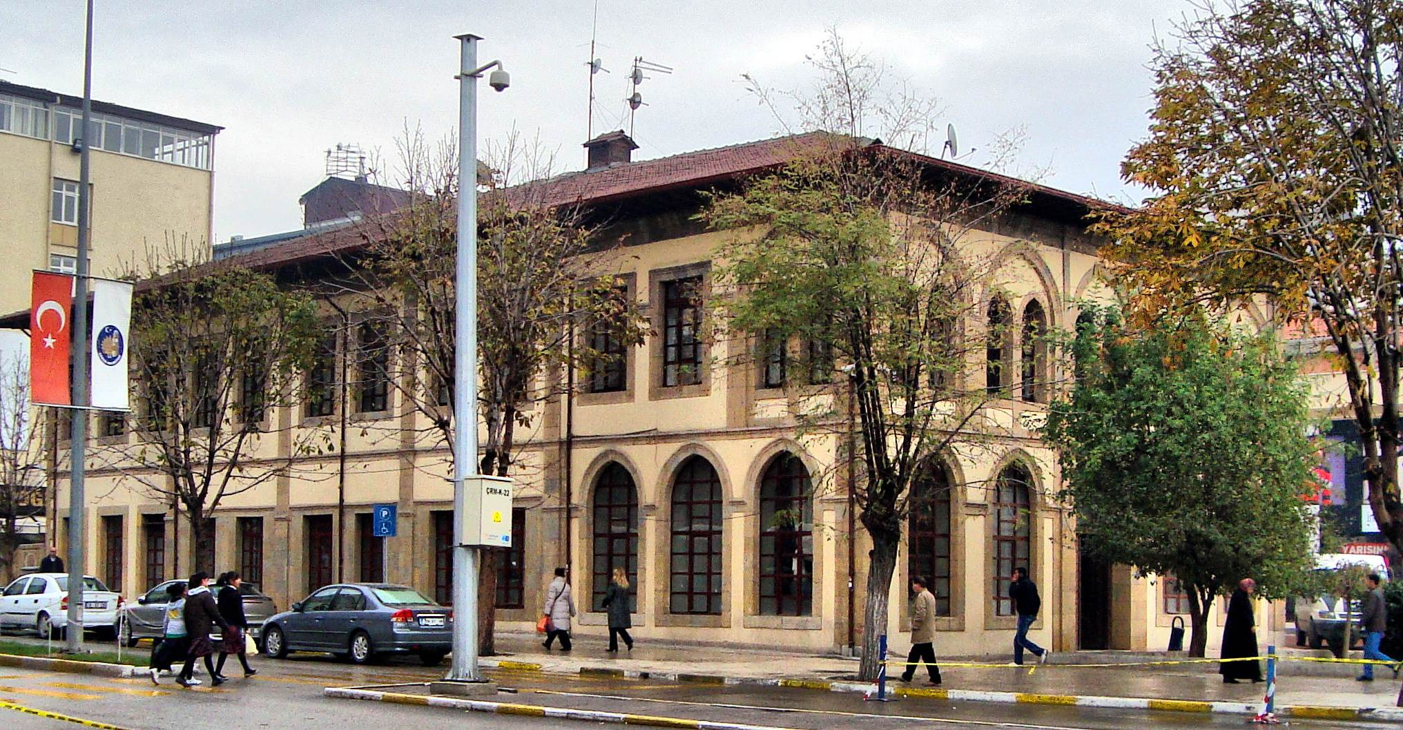 Belediye binası-Çorum. The building is NOT Ottoman, as a translated text from a knowledgable site (Çorum Tarihi) has "Built in the first years of the Republic, this building is in Neo-classical style. Especially, this situation is seen in the windows with pointed arches that surround the building from the outside. The lower floor windows are round arched, and the windows on the second floor are made as twin windows. The building has two floors, cut stone was used for its walls and it was covered with a wooden roof. Following the closure of madrasas in the first years of the Republic, a non-governmental organization named "Library Building Private Construction Commission" built this building as a library in 1923. In this building, besides the library service, music lessons were given and the ground floor was used as private workplaces. The library was lowered to the lower floor in 1938 and the upper floor was fully utilized as Çorum Community Center. Upon the burning of the courthouse after the community centers were closed in the 1950s, it was used for courthouse services until the new courthouse was built. It has been used as the City Hall since September 1960."